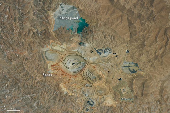 Two huge open pits intersected by spirals of roads stand at the center of Cerro Verde, an expansive copper and molybdenum mine in the desert of southwestern Peru. As shown by this satellite image, there is more to the mine than just pits. A complex tangle of supporting facilities, machinery, and other infrastructure surrounds them. Roads, some of them brightly colored, wind throughout the mine complex. Notice how the color of some of the roads changes from red to green as they descend into the mine pits and encounter different types and colors of rock and dust. Expansive conveyor systems, which look like giant roller coasters, concentrate and crush raw ore. Leaching plants with circular pools sift out more valuable minerals from less desirable waste rock. Wastewater treatment plants and tailing ponds store and process the huge quantities of water required for a mine of this scale. The Operational Land Imager (OLI) on Landsat 8 acquired this image on November 19, 2016. After a major expansion that was completed in 2015, Cerro Verde became one of the top five copper-producing mines in the world. Most of the refined ore eventually makes its way to smelting facilities in Asia, where it is heated and melted down into usable metals and alloys. Copper is ubiquitous in modern society, used in everything from coins to electrical wiring to the hulls of ships. Molybdenum is a metal commonly used in various steel alloys. In the past few decades, the Andes mountain region in South America has emerged as the world’s largest producer of copper. Chile is the top producer of the metal, followed by China. Mines like Cerro Verde have helped push Peru into the upper echelon of production. Between July 2015 and 2016, the nation’s copper production jumped 30 percent, according to statistics from Peru’s Energy and Mines Ministry. References and Related Reading -- see original source